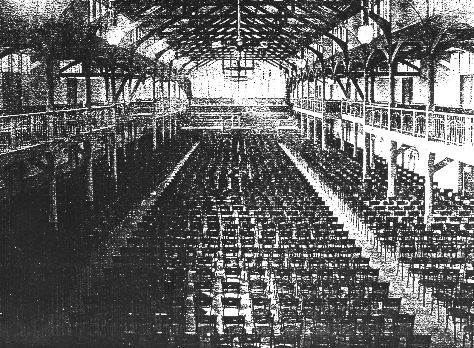 building at Keerweerlaan Rotterdam used for concerts and expositions.Scan from Wereldkroniek 19040528